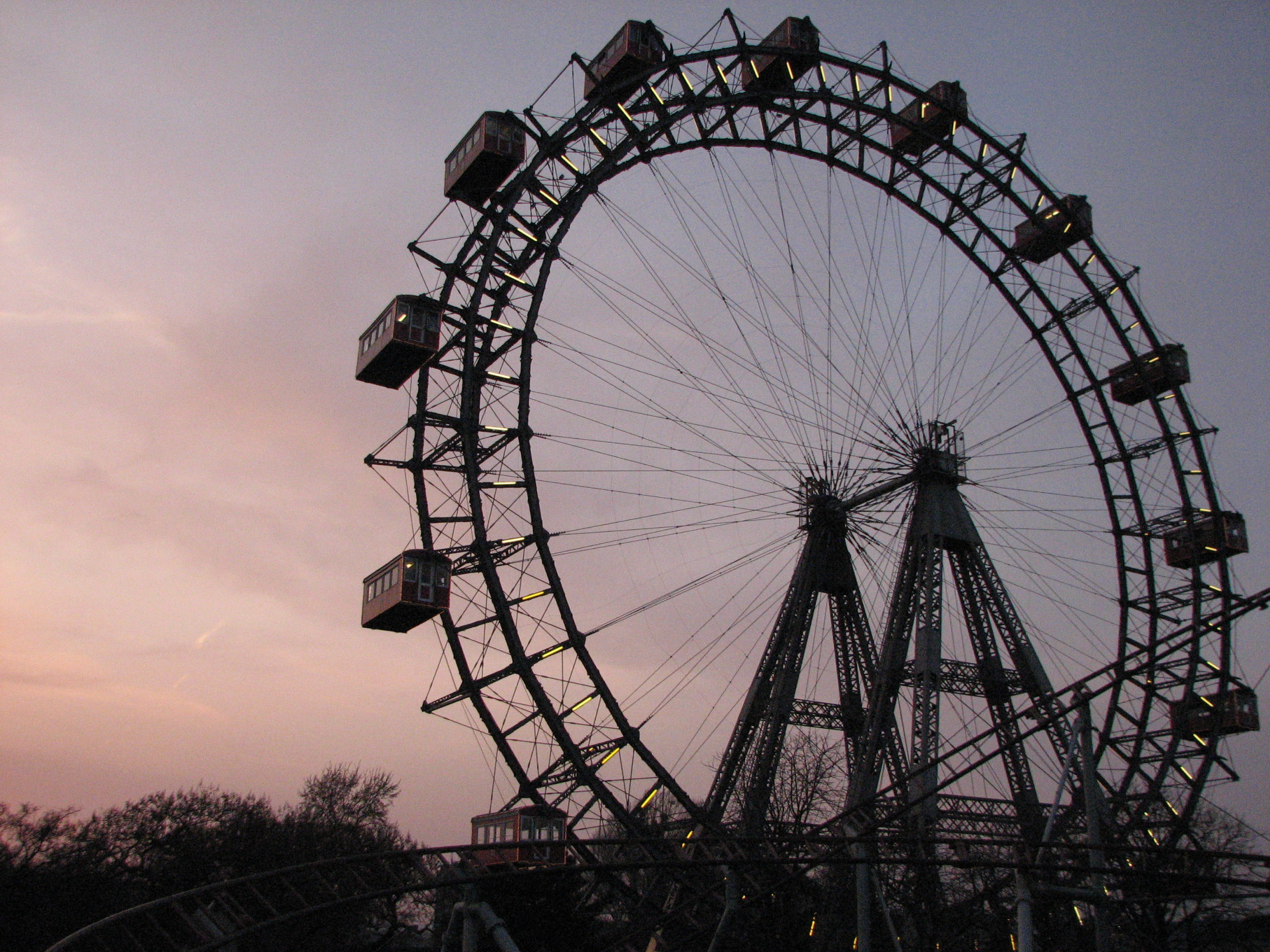 Riesenrad from the Super 8er Bahn